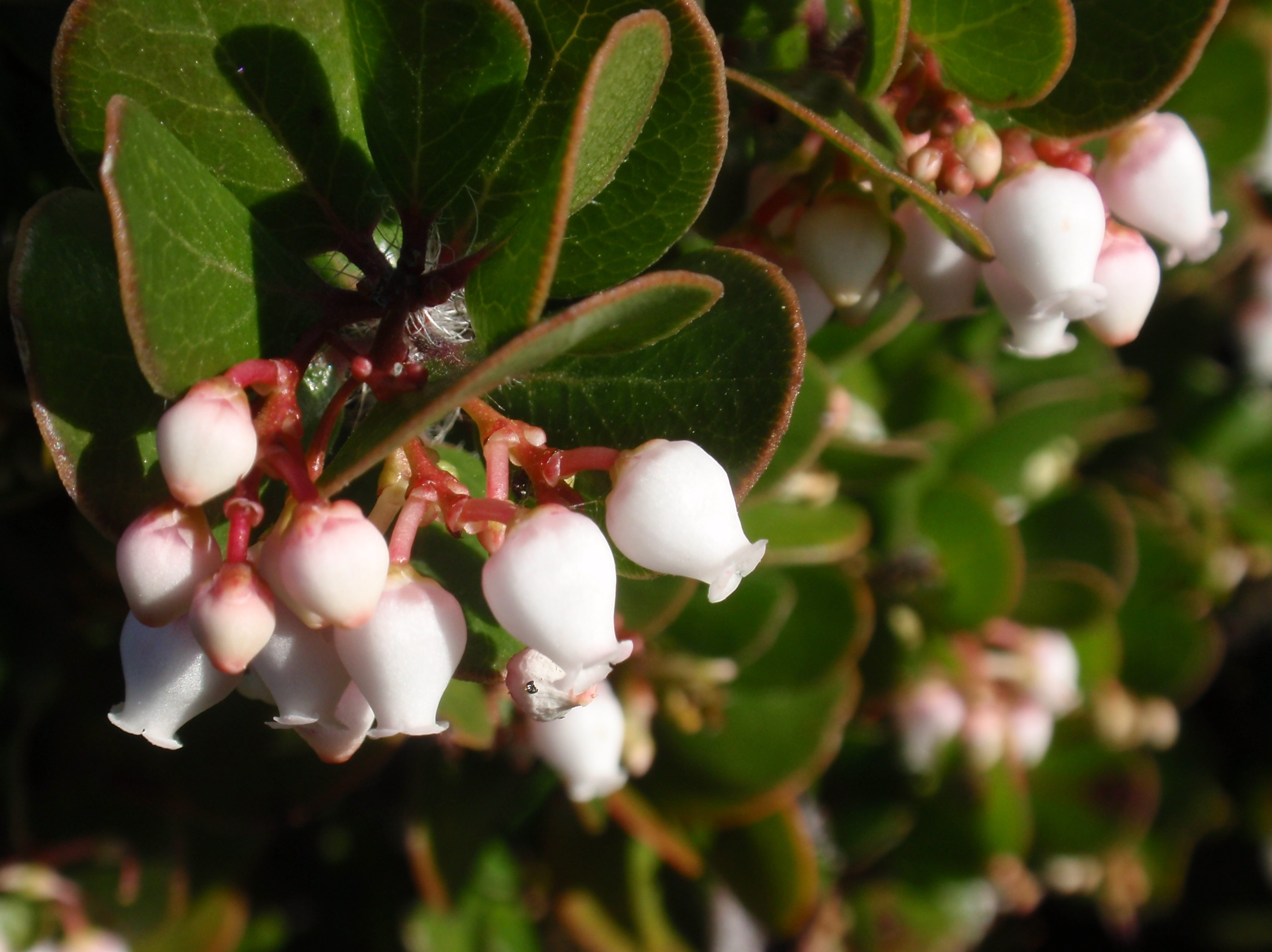 Arctostaphylos nummularia — Glossyleaf Manzanita. Along the Temelpa Trail on Mount Tamalpais, in Marin County, California.